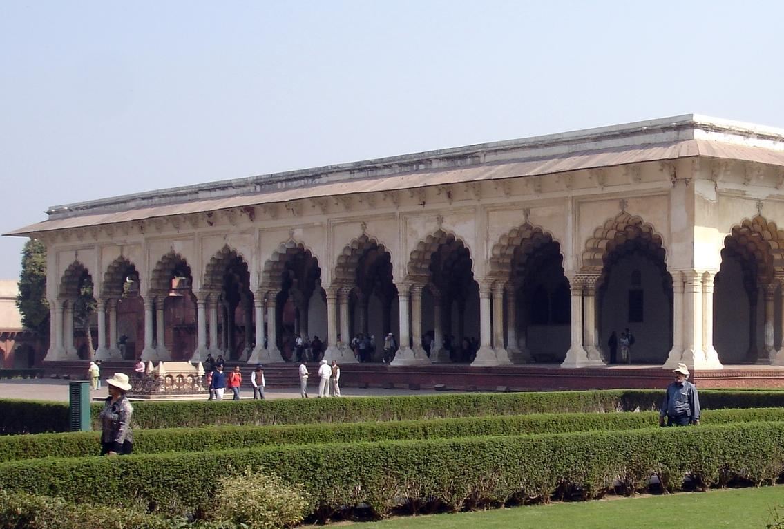 Photographed by Pratheepps